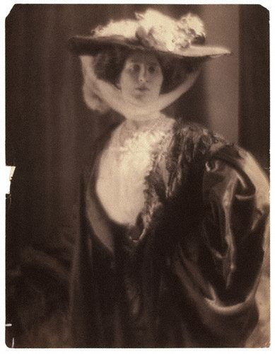 Lady Ottoline Morrell 1912